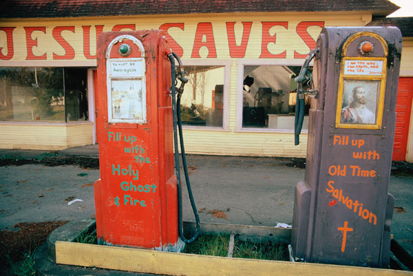 "Gas stations abandoned during the fuel crisis in the winter of 1973-74 were sometimes used for other purposes. This station at Potlatch, Washington, west of Olympia was turned into a religious meeting hall. Signs painted on the gas pumps proclaim 'fill up with the Holy Ghost . . . and Salvation.'"